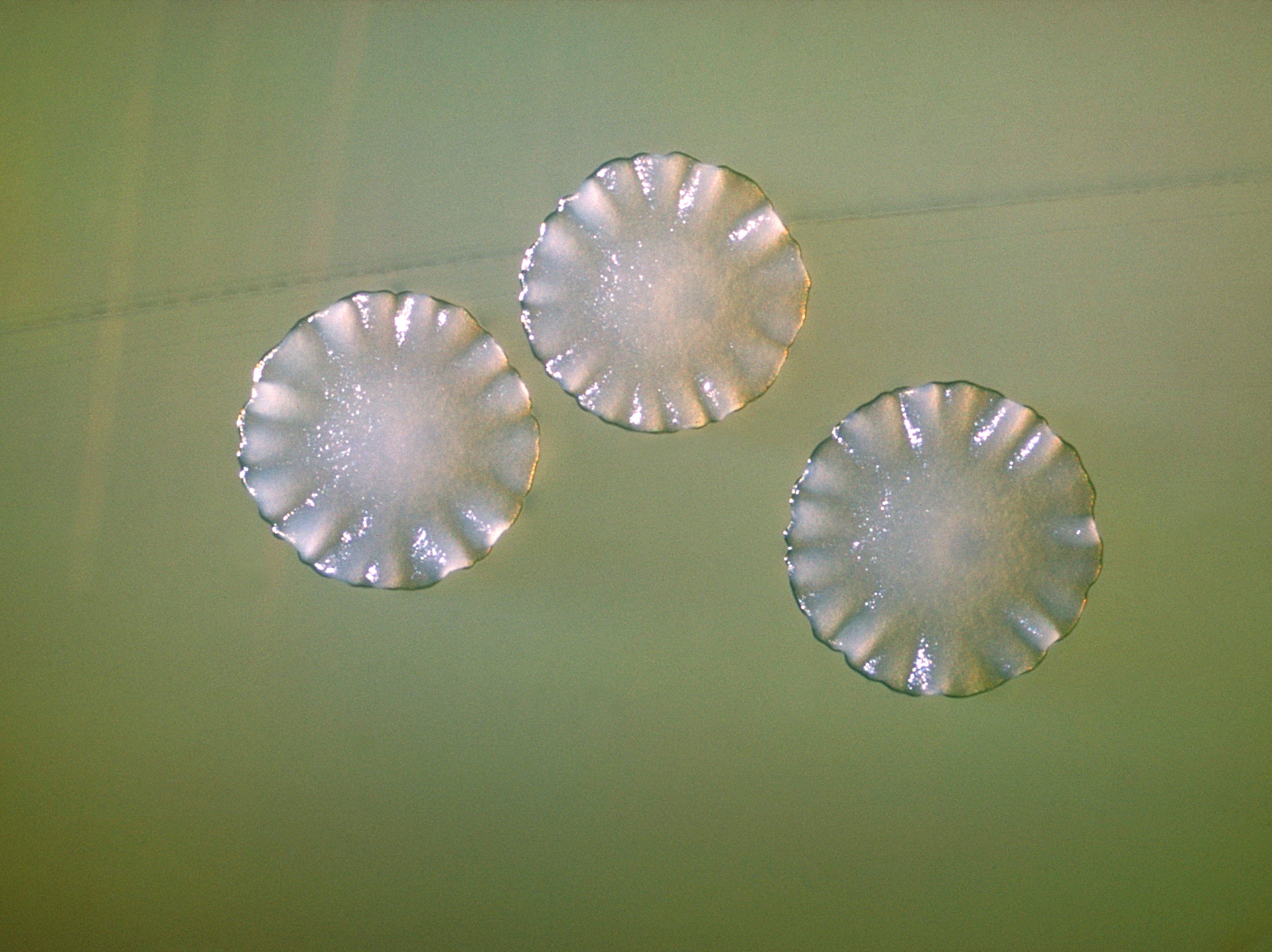 Agar plate culture of Actinomyces sp. bacteria, a Gram positive opportunistic pathogen of the oral cavity. Obtained from the CDC Public Health Image Library. Image credit: CDC/Dr. Georg (PHIL #2845), 1963.